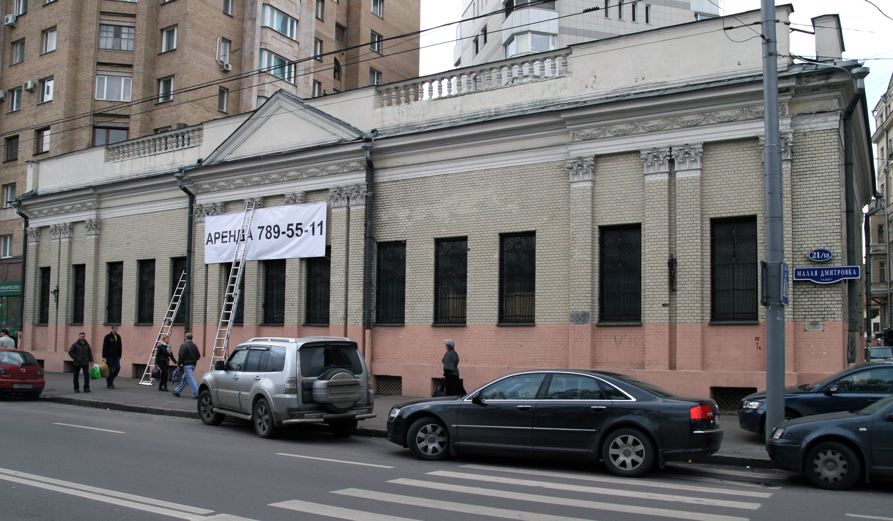 Moscow, Malaya Dmitrovka Street 21